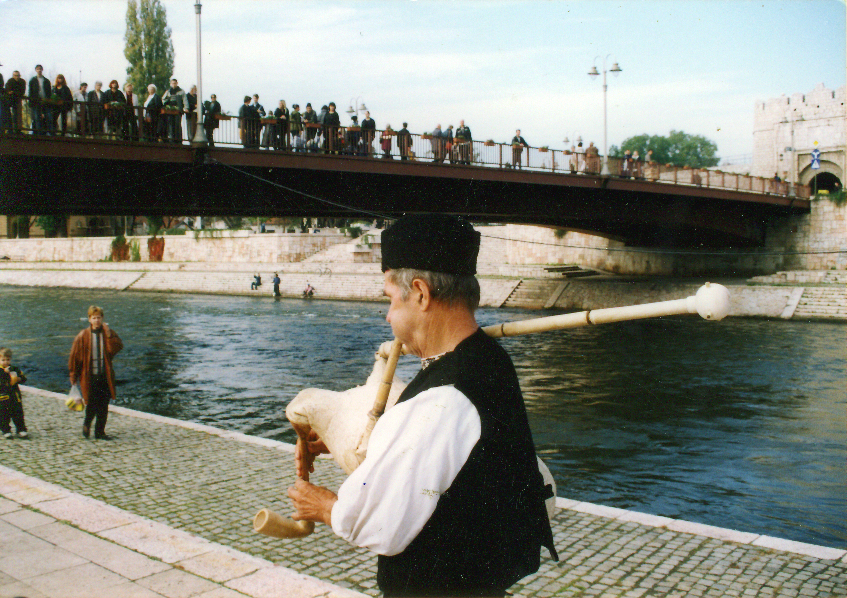 Bagpipes player from Serbia, on the Niš quay, World music festival in Niš 2001